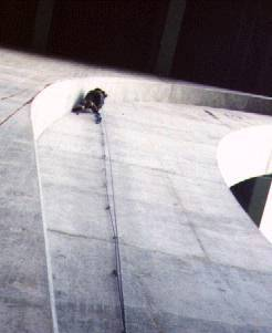 Buildering circa 1992 at the Doran Bridge, Hwy 280, San Mateo, CA.